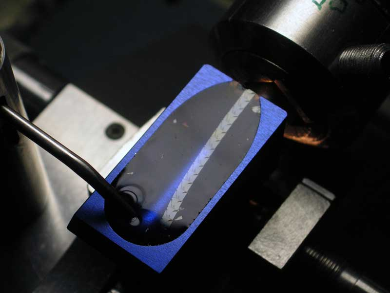 Sections floating on water surface during microtomy